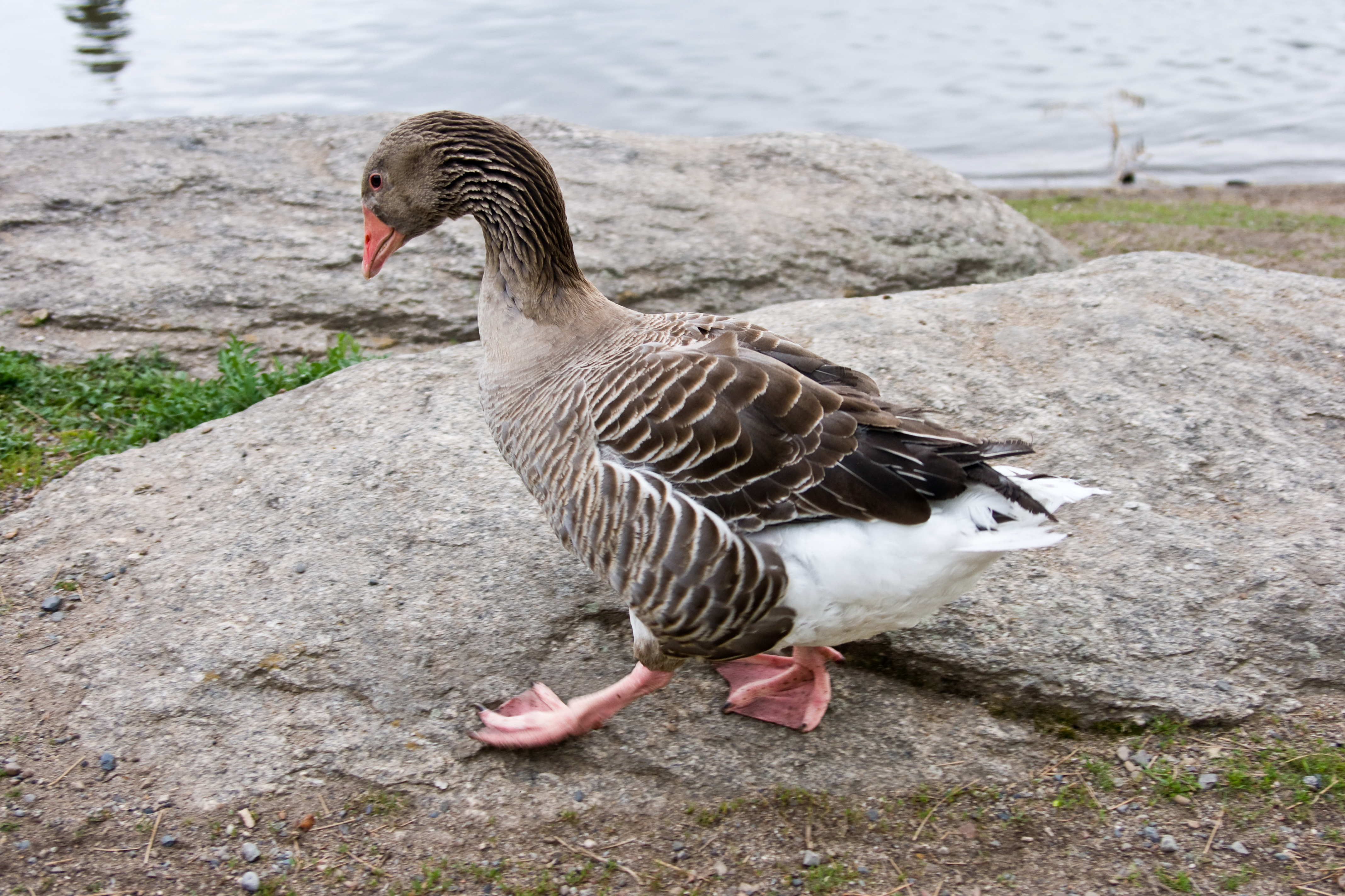 Domesticated Greylag Goose Anser anser (fat rear indicates domesticated origin)